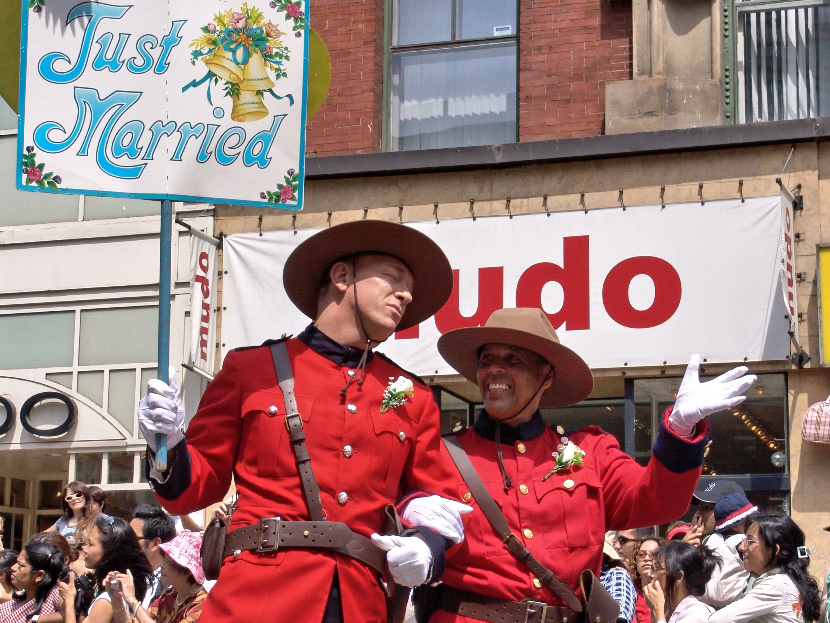 Toronto Gay Pride Parade 2006. Gay Pride Parade is the fun and fabulous arts and culture festival that happens on the last week of June each year in Toronto. Pride celebrates diverse sexual and gender identities, histories, cultures, families, friends and lives. Gay Pride Parade in Toronto attracts about 1 million tourists. More pictures...